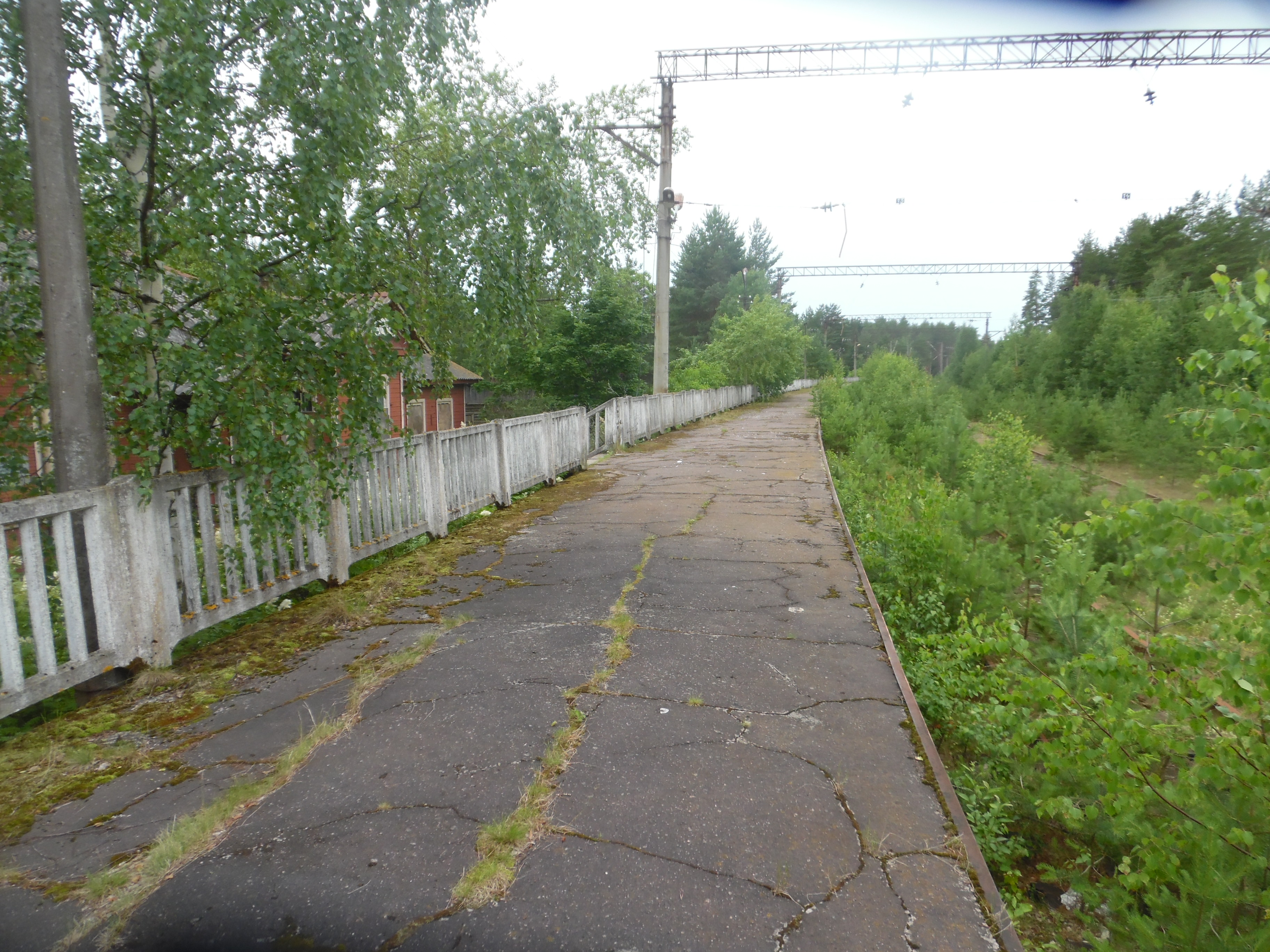 Krasnoflotsk railway station